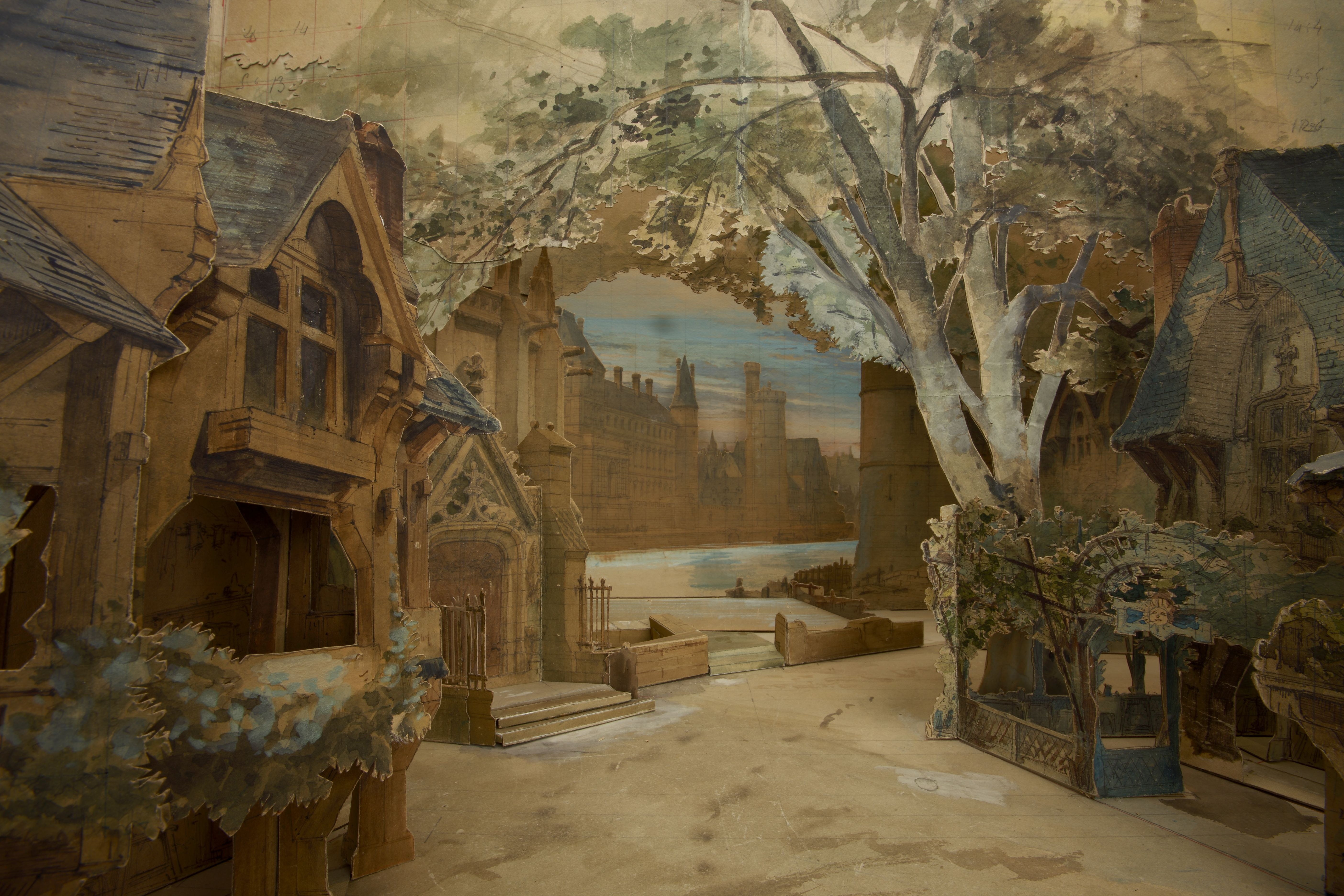 Les Huguenots: model of the opera set for the third act (1875)